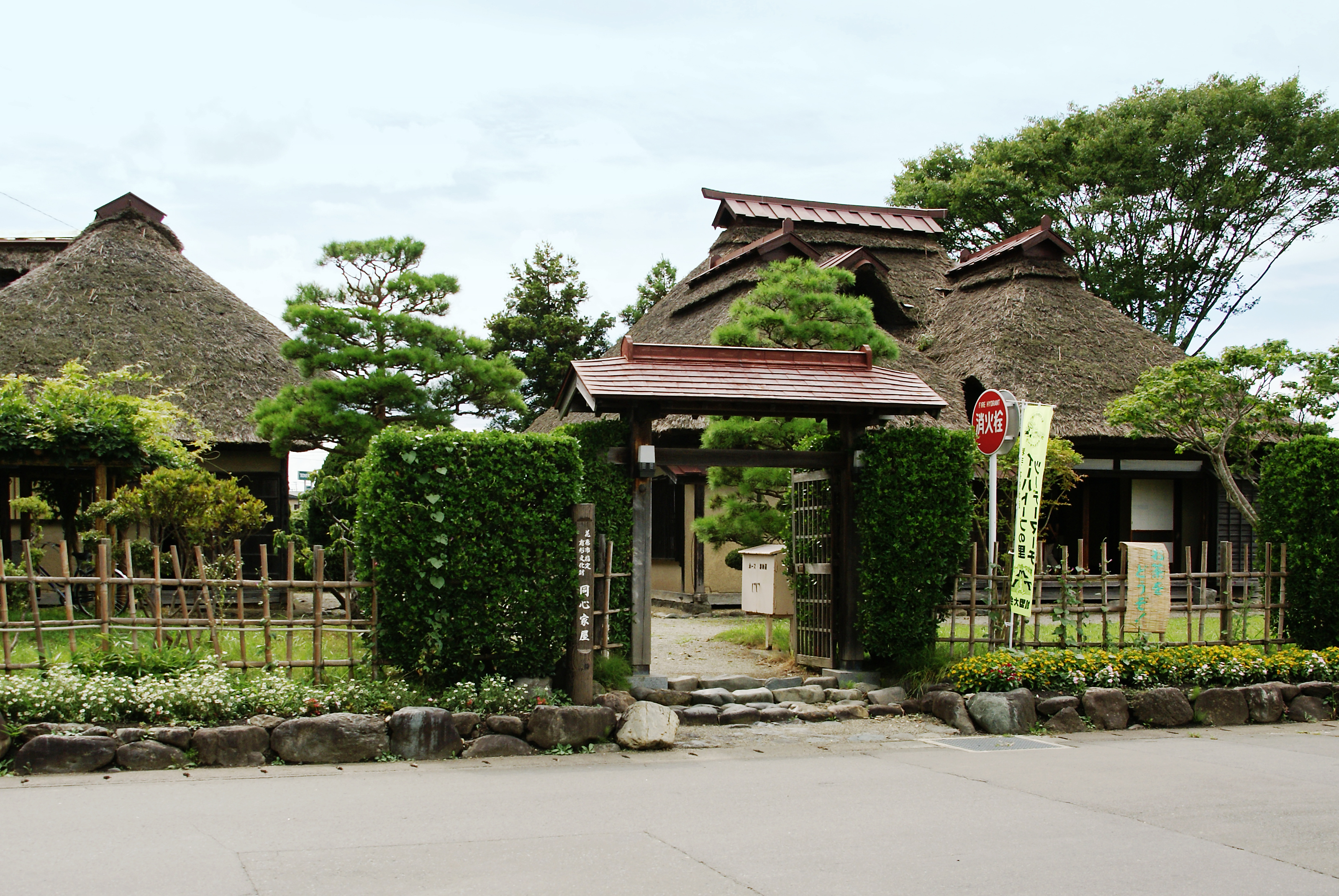 Doshin-yashikis in Hanamaki, Iwate prefecture, Japan